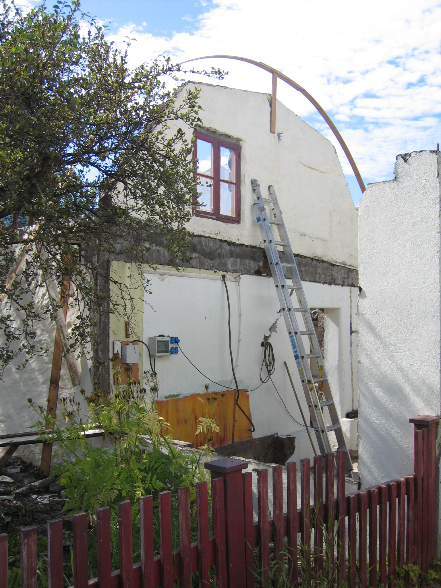 Steinbær ín Reykjavik, Bergstaðastræti 22